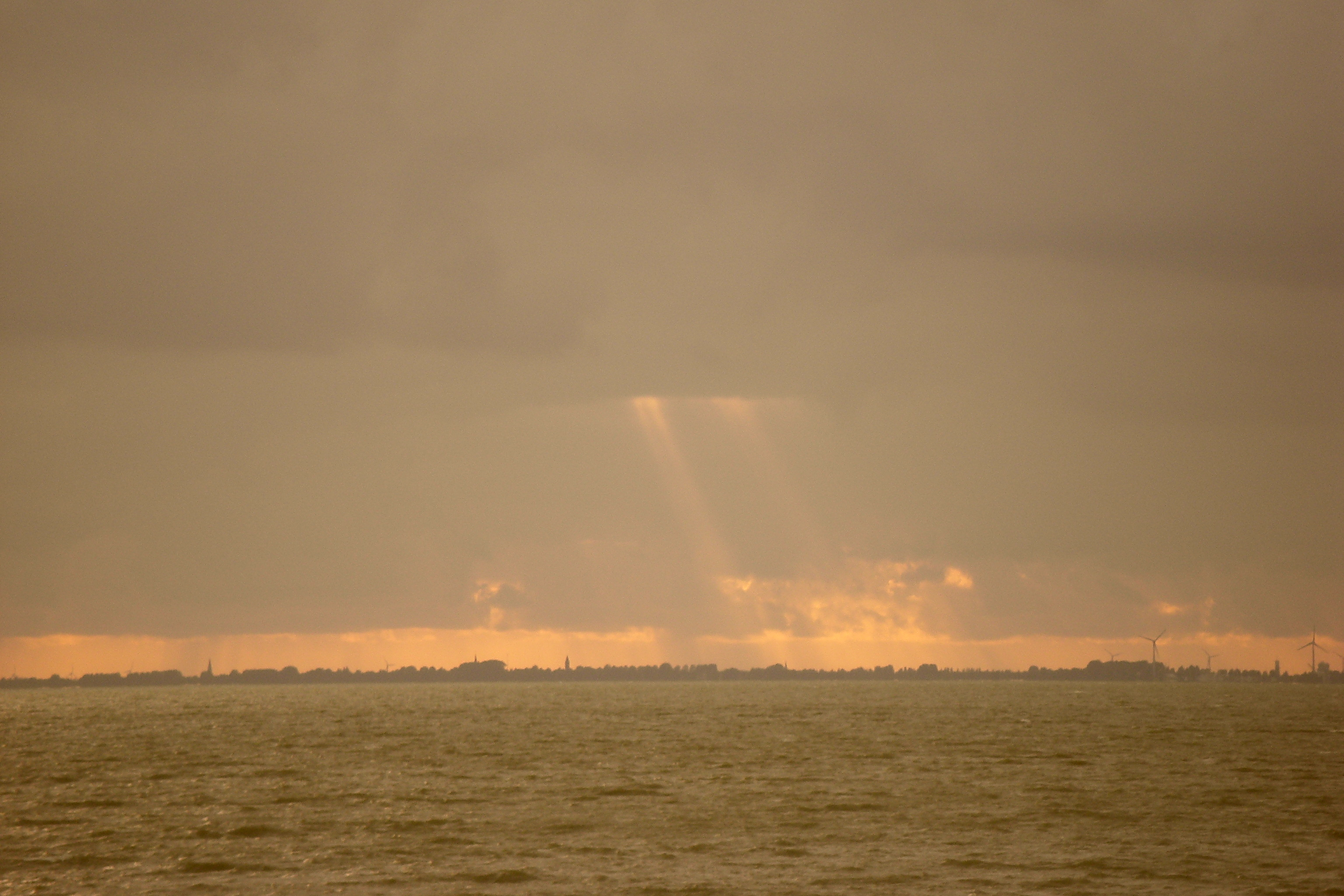 Markermeer seen from the dike Enkhuizen-Lelystad